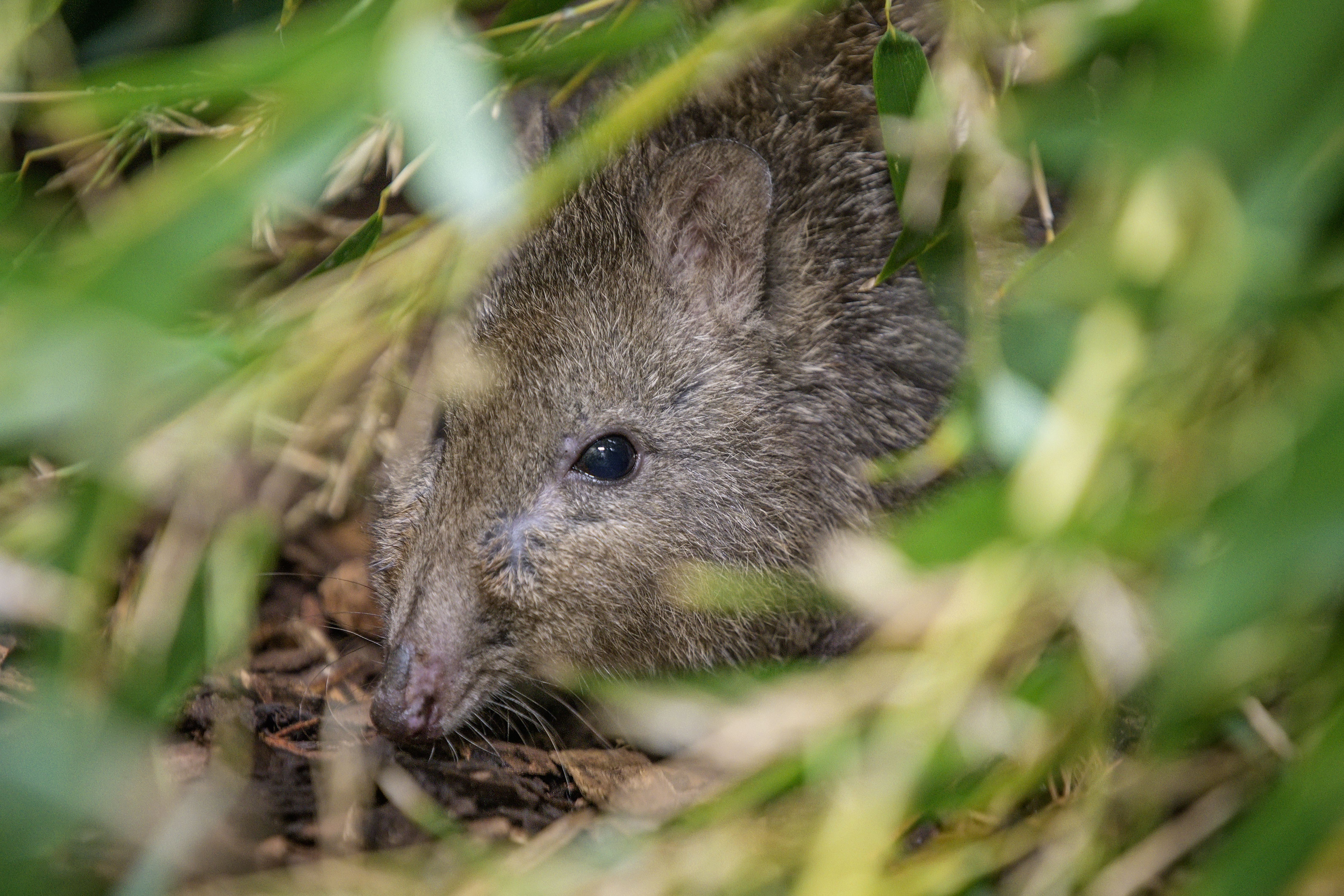 the long-nosed potoroo, Prague Zoo